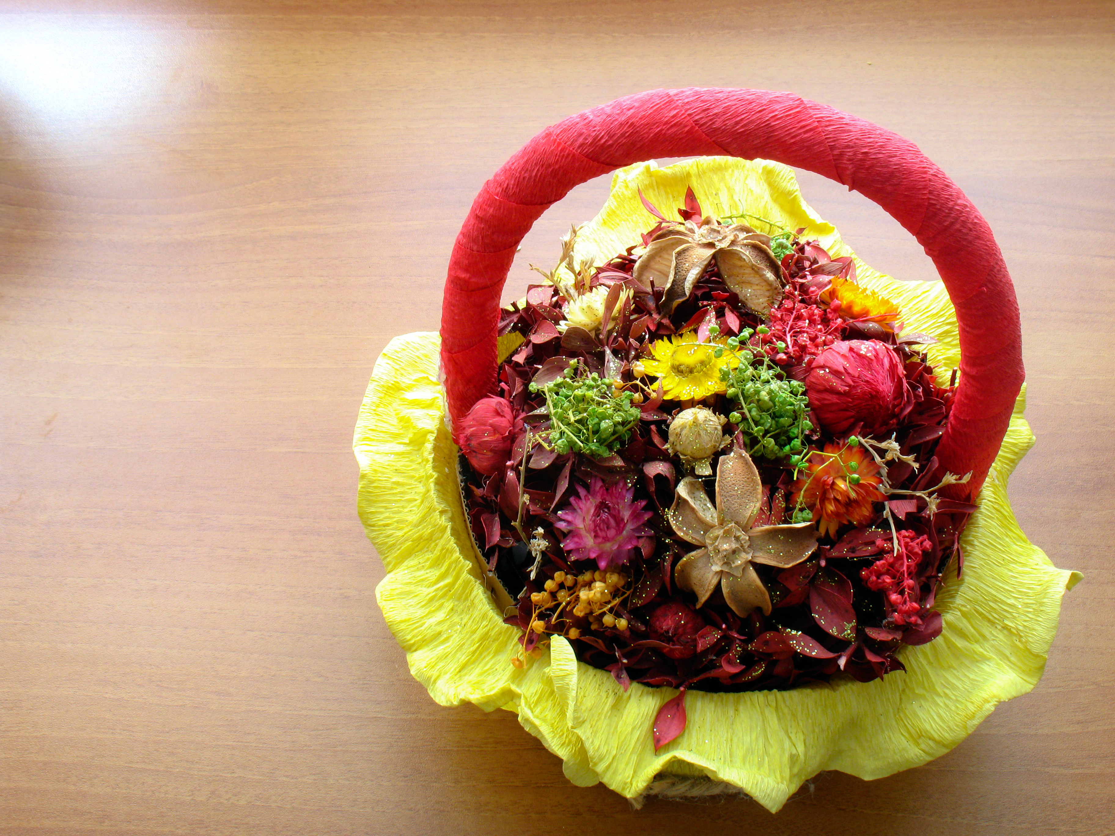 Artificial flowers are imitations of natural flowering plants used for commercial or residential decoration. They are sometimes made for scientific purposes (the collection of glass flowers at Harvard University, for example, illustrates the flora of the United States).